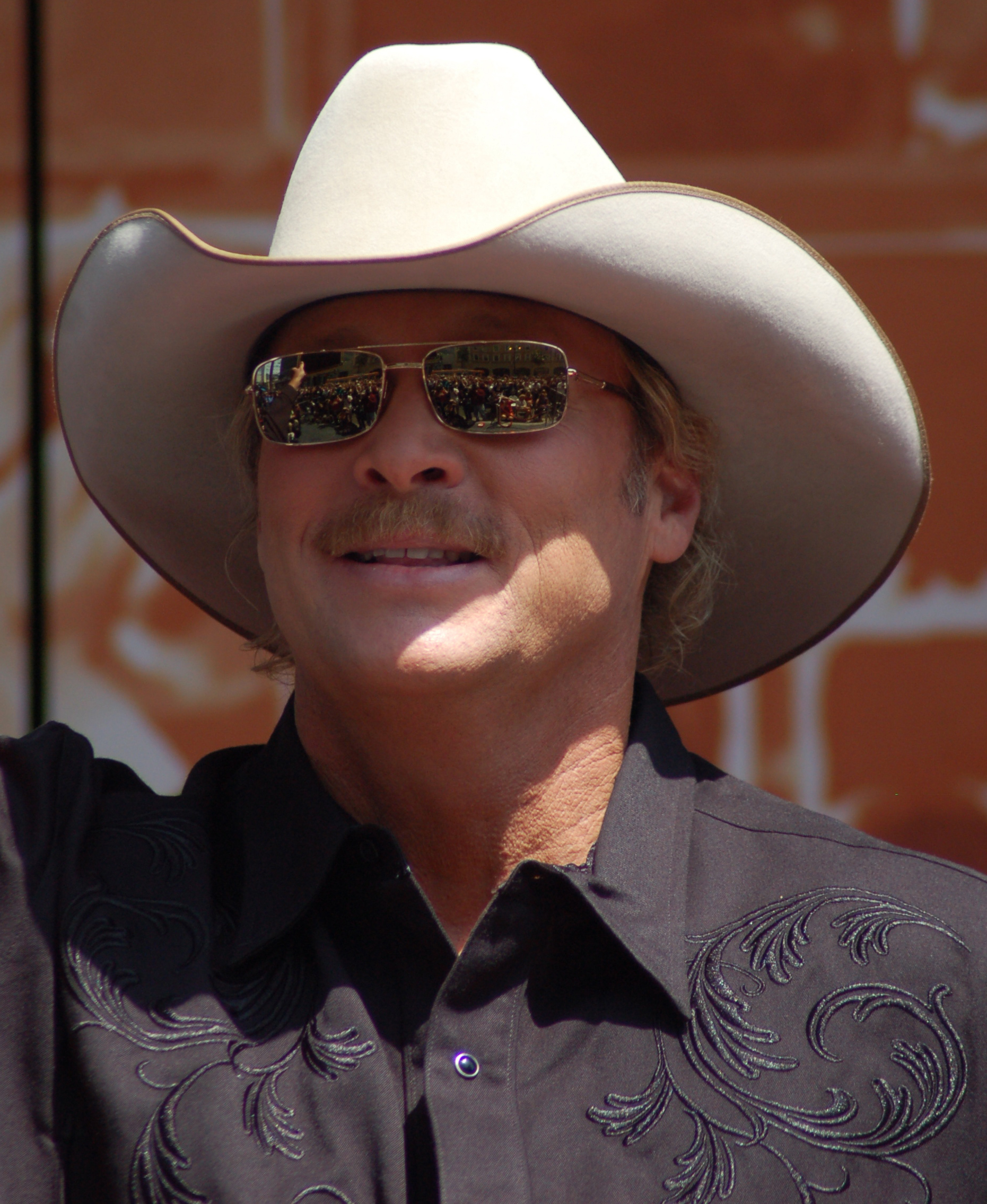 Alan Jackson attending a ceremony to receive a star on the Hollywood Walk of Fame.